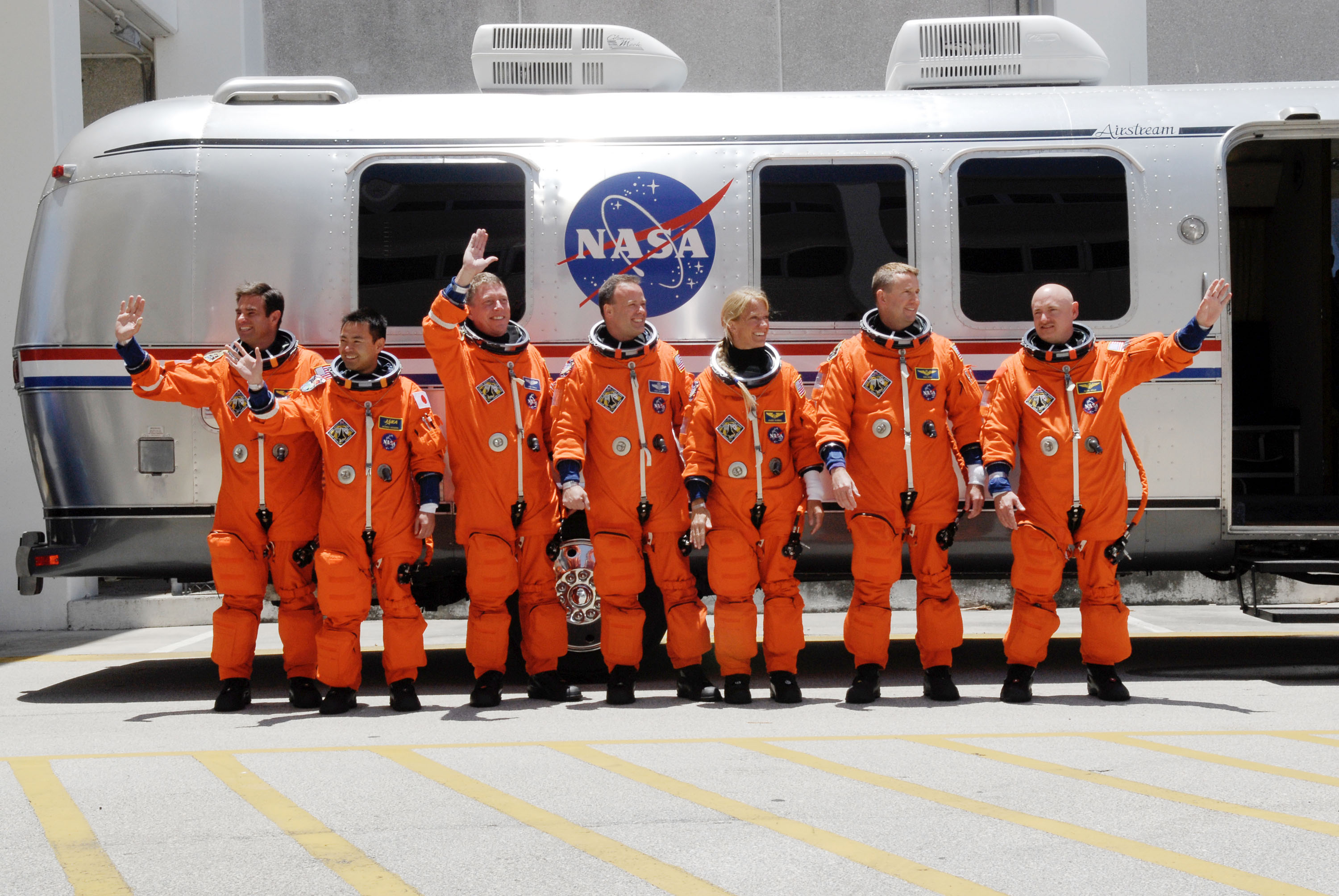 After suiting up, the STS-124 crewmembers pause alongside the Astrovan to wave farewell to onlookers before heading for launch pad 39A for the launch of Space Shuttle Discovery on the STS-124 mission. From the right are astronauts Mark Kelly, commander; Ken Ham, pilot; Karen Nyberg, Ron Garan, Mike Fossum, Japan Aerospace Exploration Agency (JAXA) astronaut Akihiko Hoshide and Greg Chamitoff, all mission specialists.